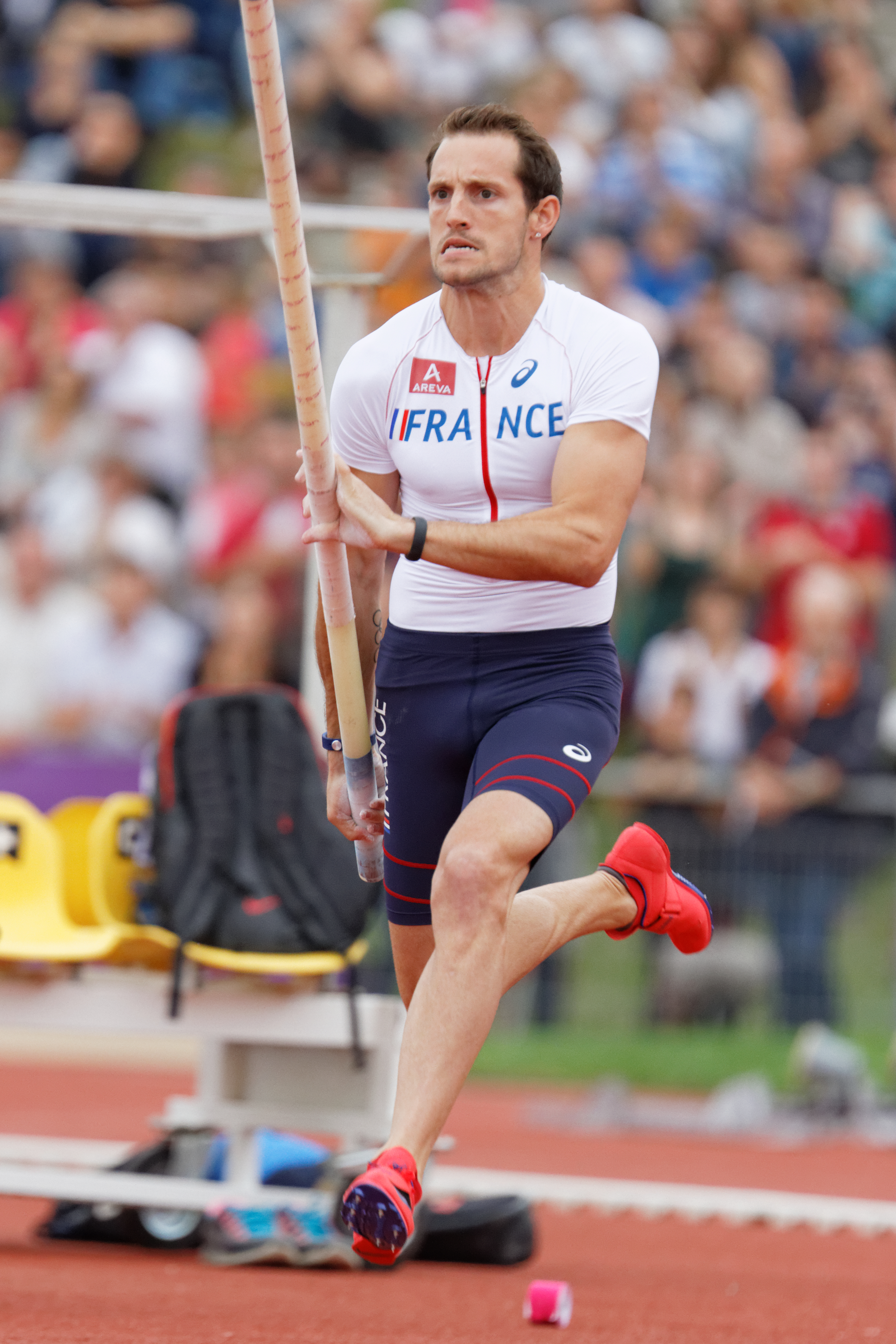 DécaNation 2014